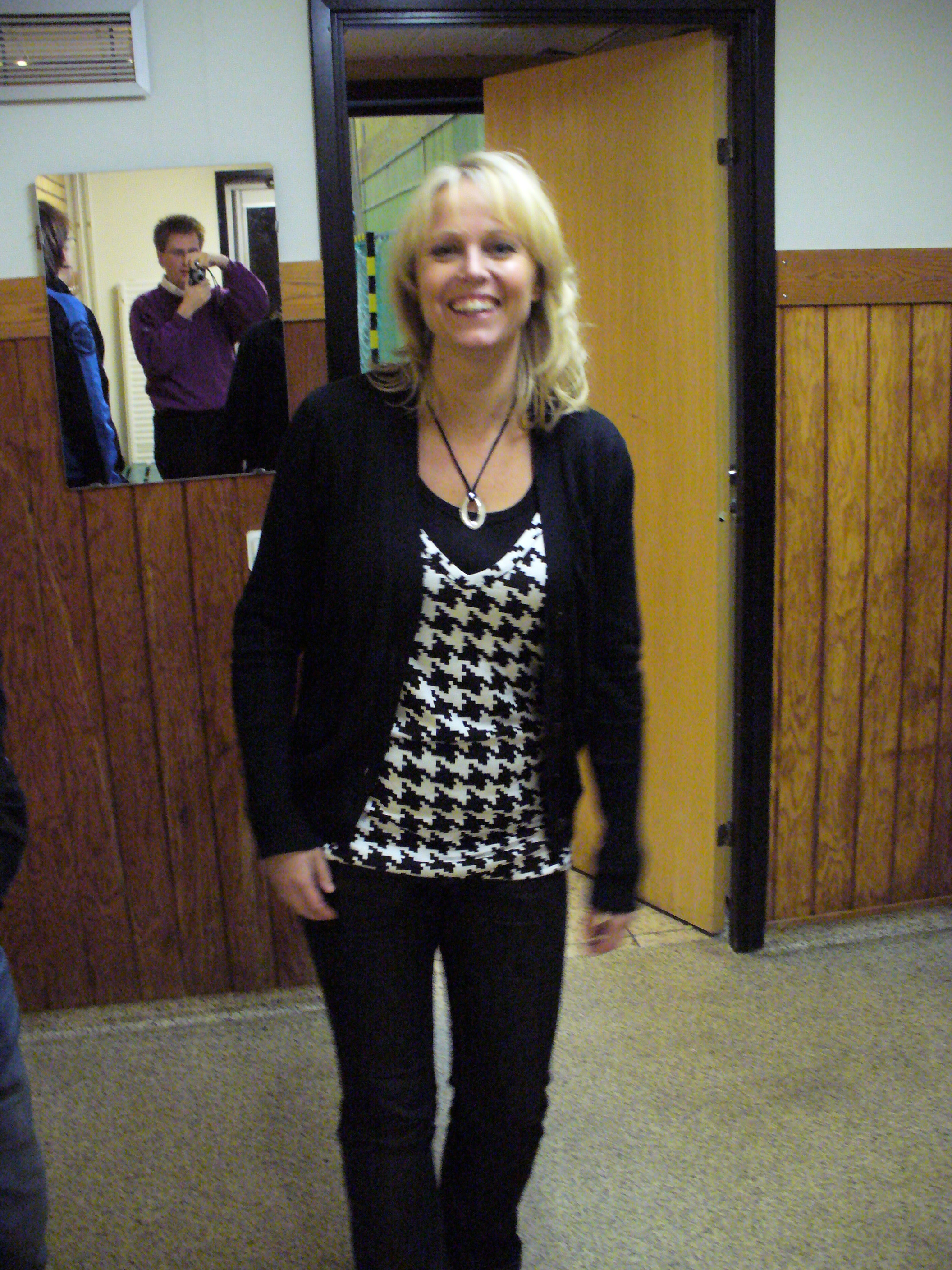 Swedish actress and comedian Annika Andersson at a youth soccer event in Falkenberg